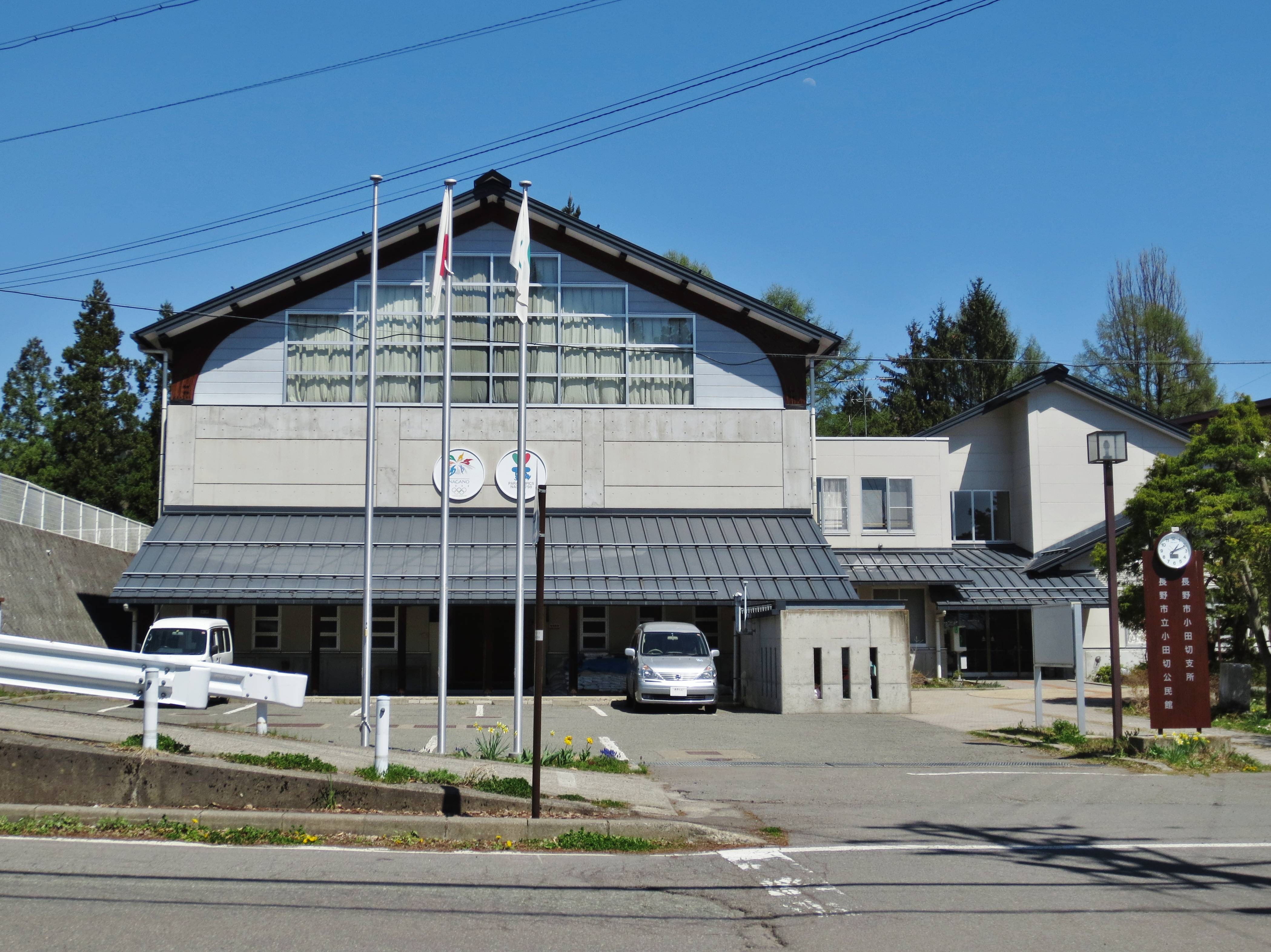 Nagano city Otagiri branch office.